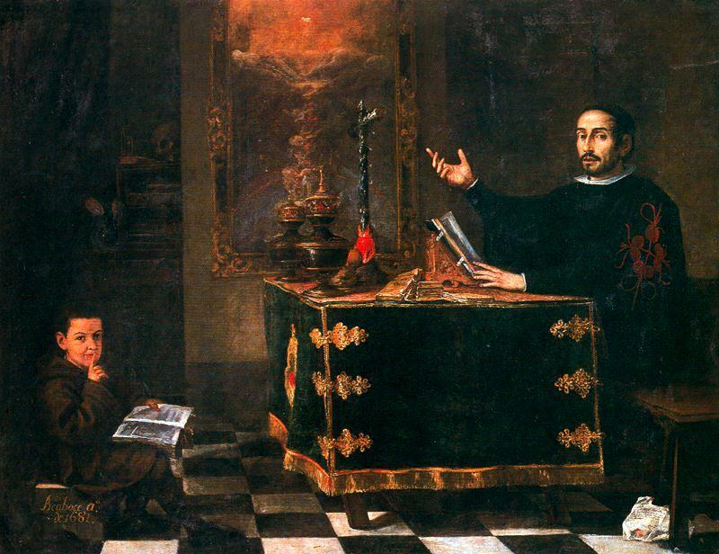 Miguel Mañara reading the rule of the Hermandad de la Caridad